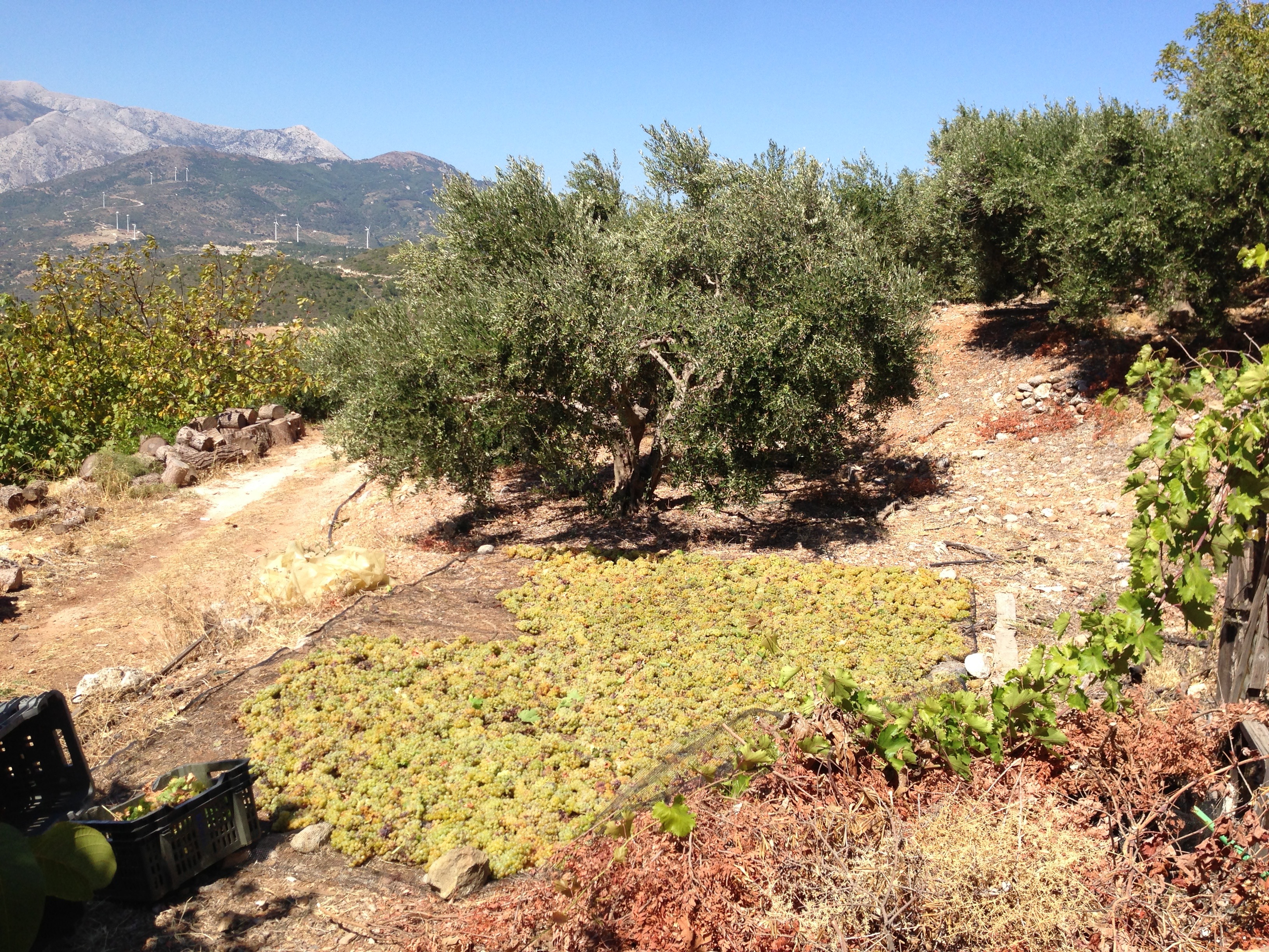 Muscat Grapes drying in the Sun. Platanos, Samos, Greece - September 2017. (Note the olive nets. Harvested 14˚ baumé & pressed at 21.5˚ 7 days later).